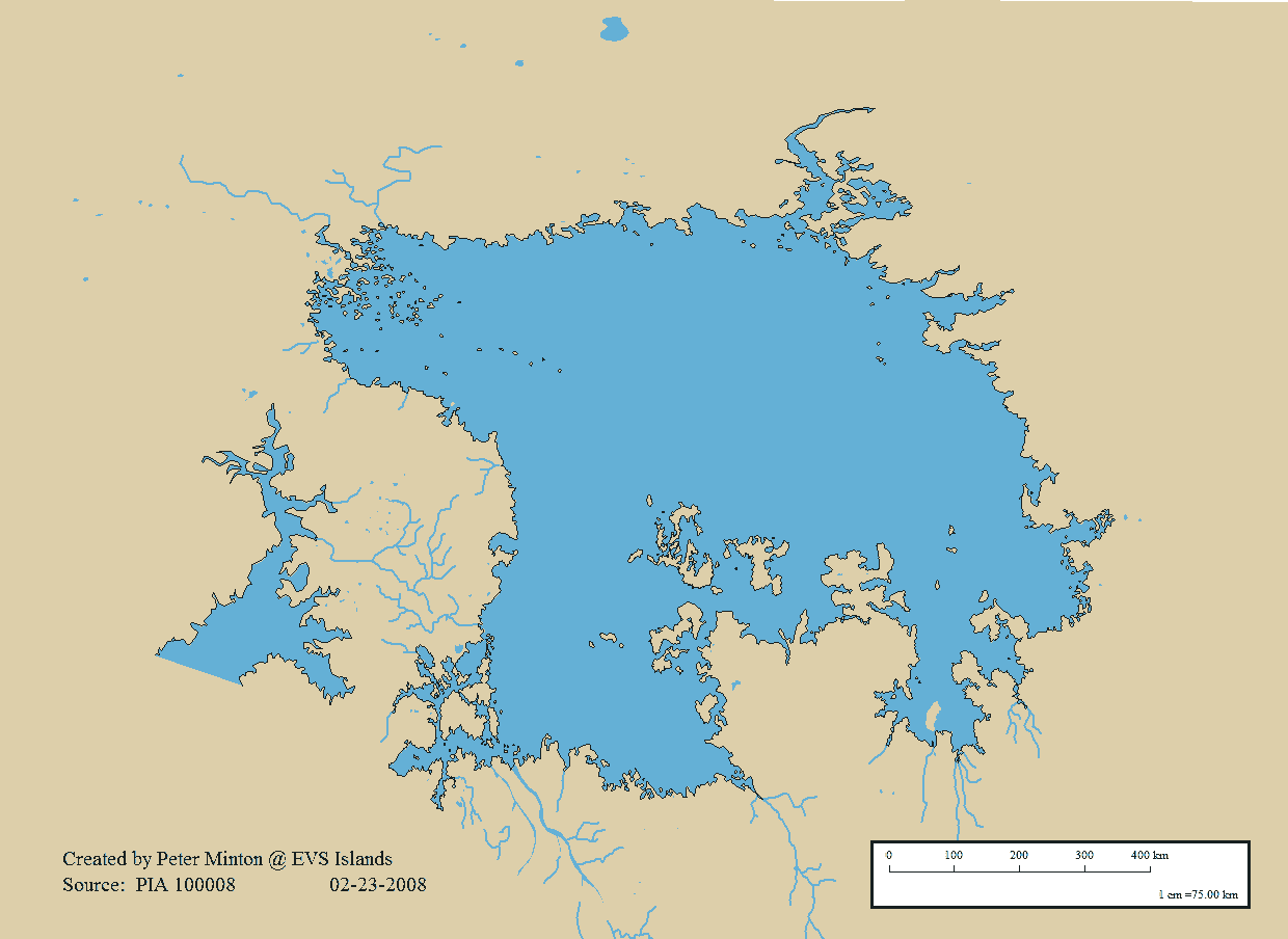 A map showing Ligeia Mare, a methane-sea on Saturn's moon Titan. Converted to PNG by uploader.